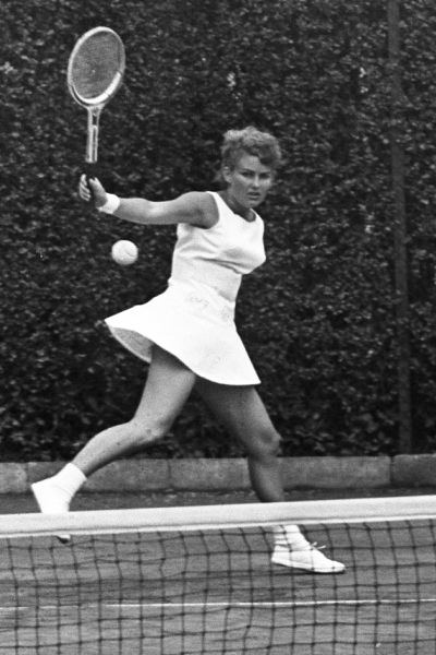 Tennis at Hilversum (1964 Dutch Open). Australian tennis player Lesley Turner